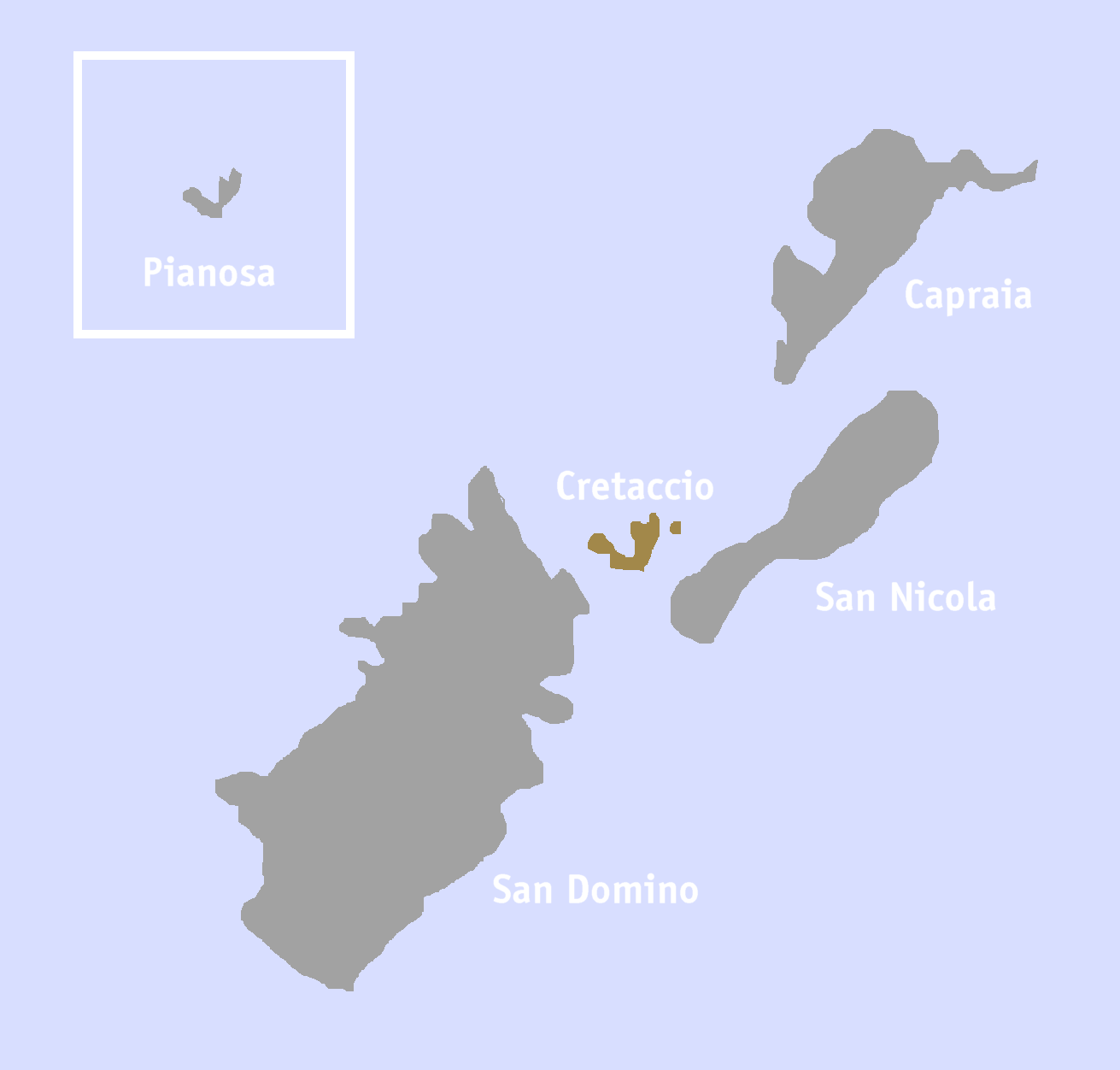 Map of the Isole Tremiti: Position of Cretaccio map created by user:Idéfix